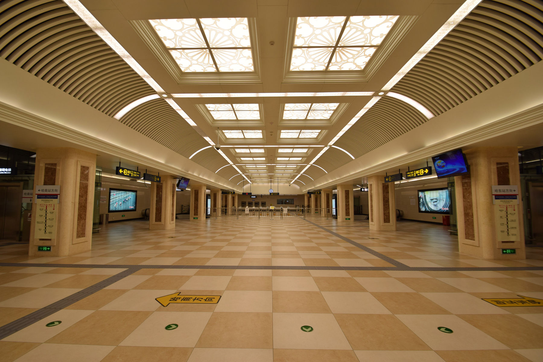 Concourse of Hagongda Station, Harbin Metro Line 1